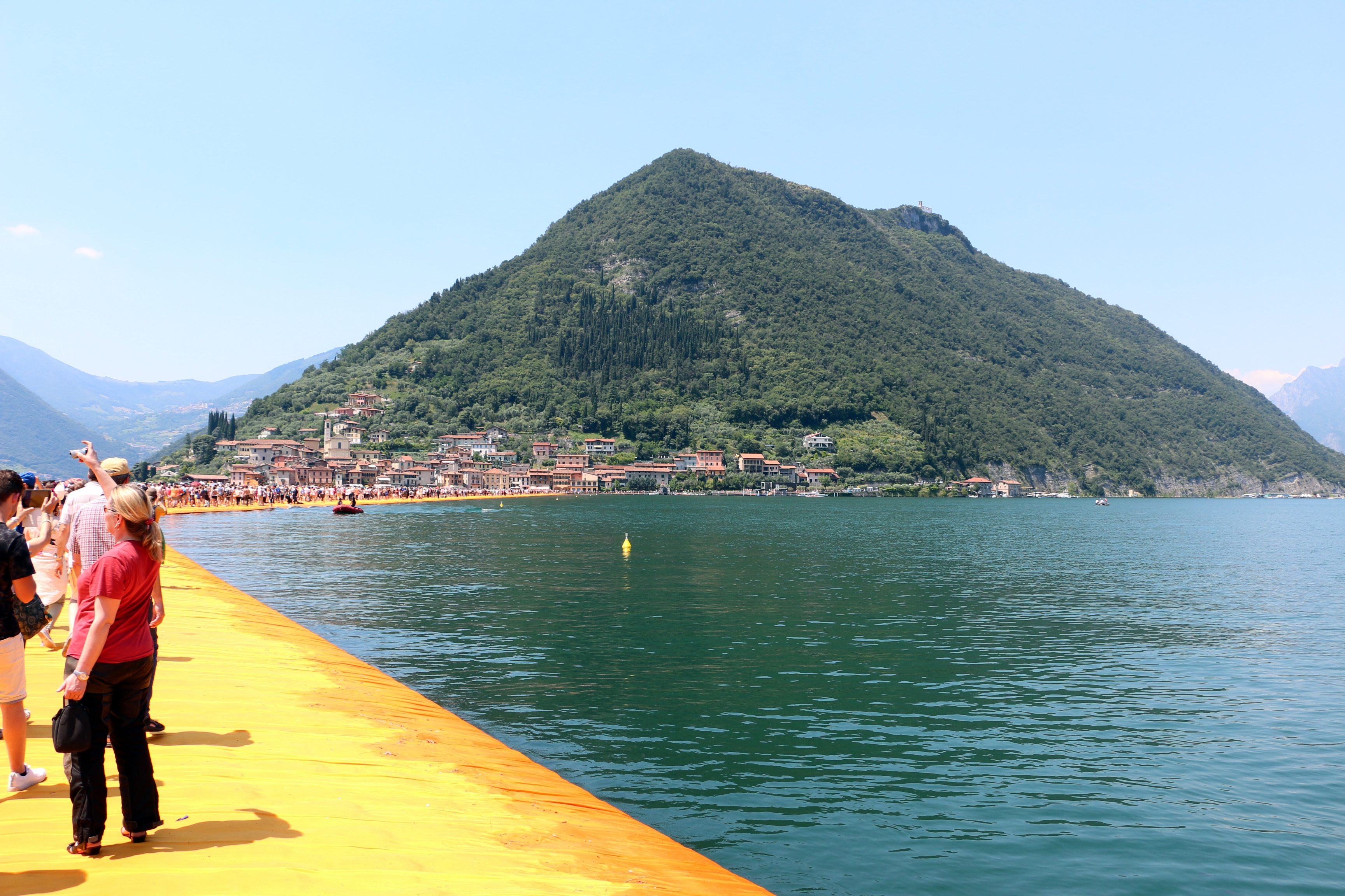 Monte Isola